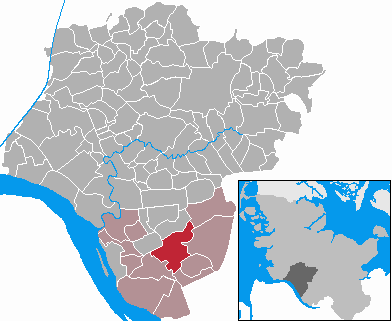 This map shows the area of the municipality Sommerland in the Kreis (district) Steinburg, Schleswig-Holstein, Germany.